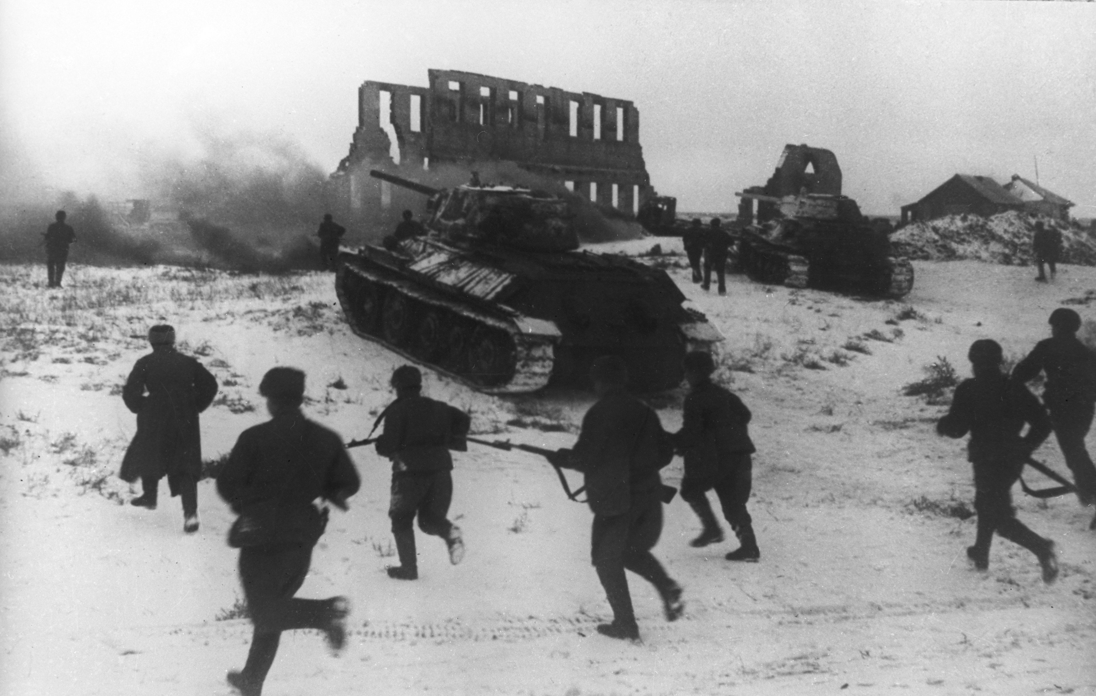 soviet troops advances on Kalac (november 1942)